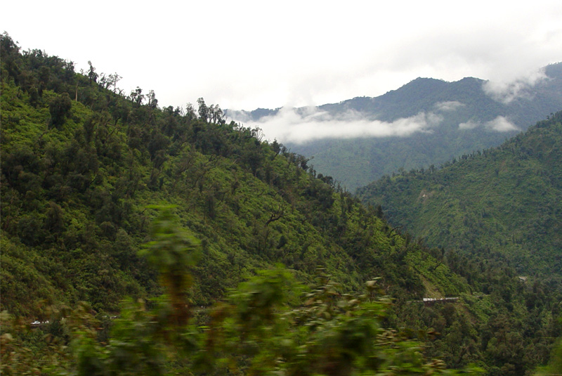 Yungas rainforest in Tucuman province, Argentina